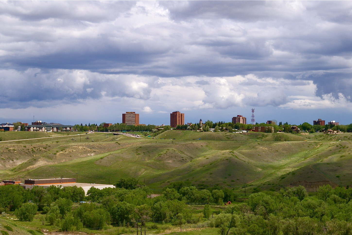 Skyline of downtown Lethbridge. Taken by me from University Hall balcony, facing downtown.